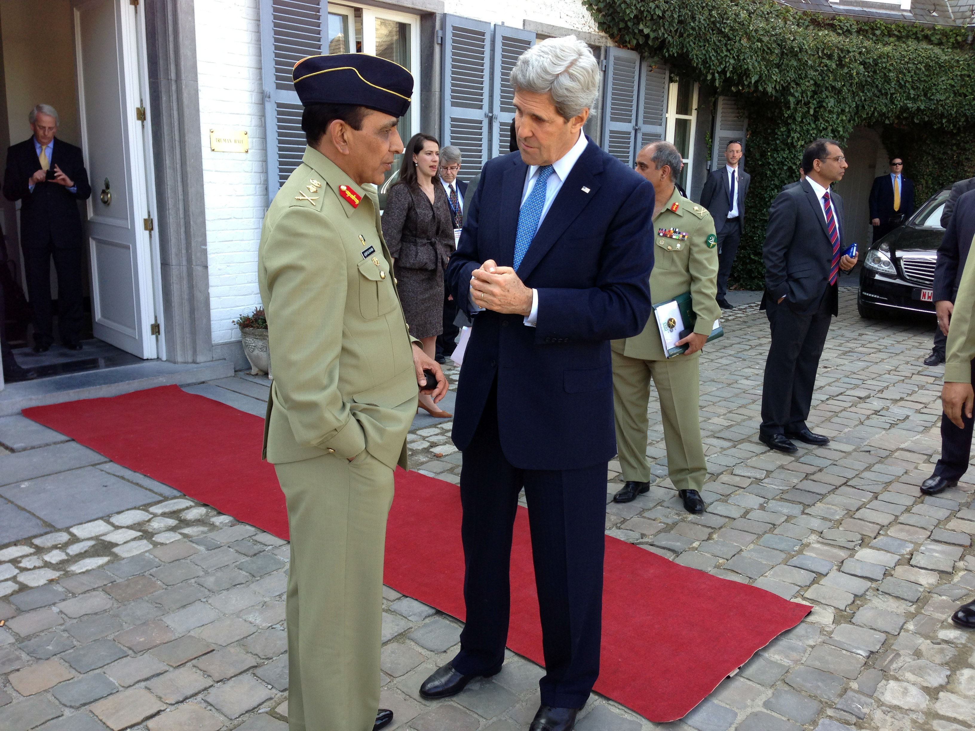 U.S. Secretary of State John Kerry bids farewell to Pakistani Chief of Army Staff General Ashfaq Kayani after their trilateral meeting with Afghan President Hamid Karzai in Brussels, Belgium, on April 24, 2013. [State Department photo/ Public Domain]